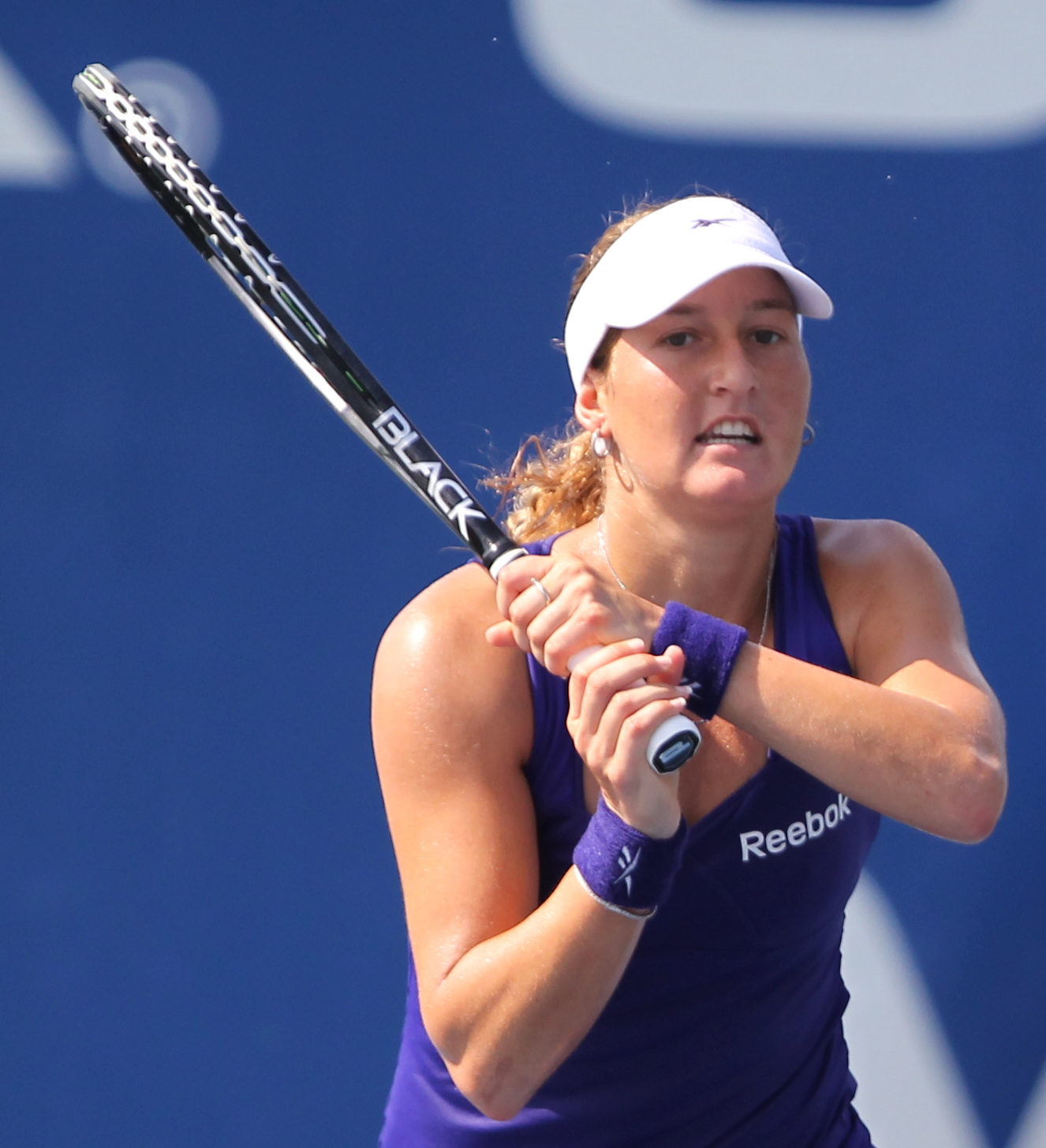 Citi Open Tennis July 30, 2011